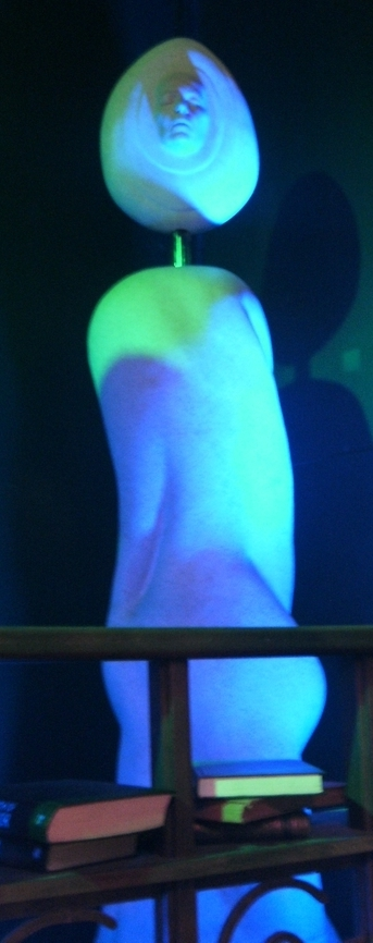 from the Doctor Who episodes "Silence in the Library" / "Forest of the Dead" - Doctor Who exhibition at the Red Dragon Centre at Cardiff Bay Doctor Who Experience